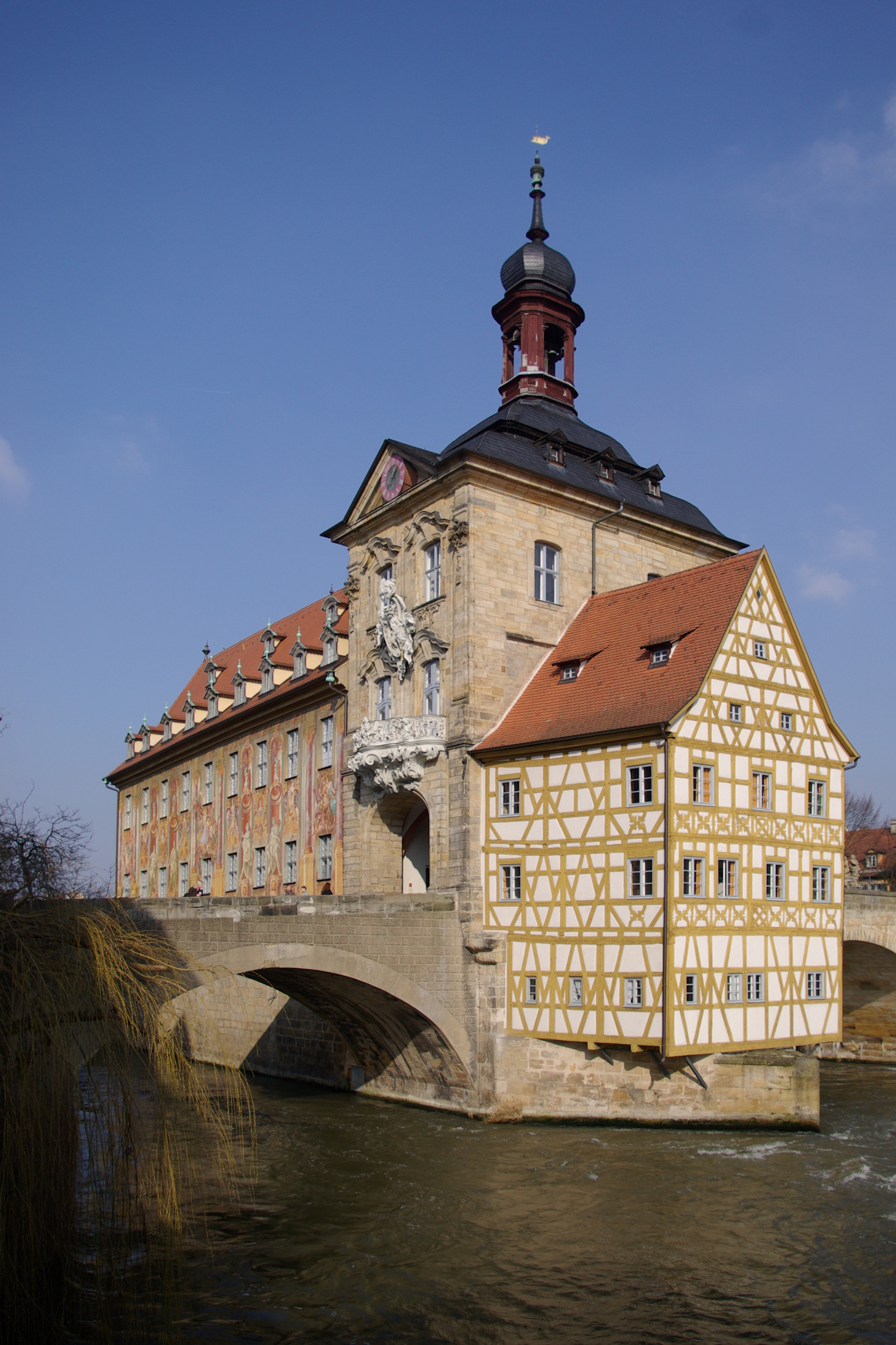 Altes Rathaus (old townhall), Bamberg, Bavaria, Germany.